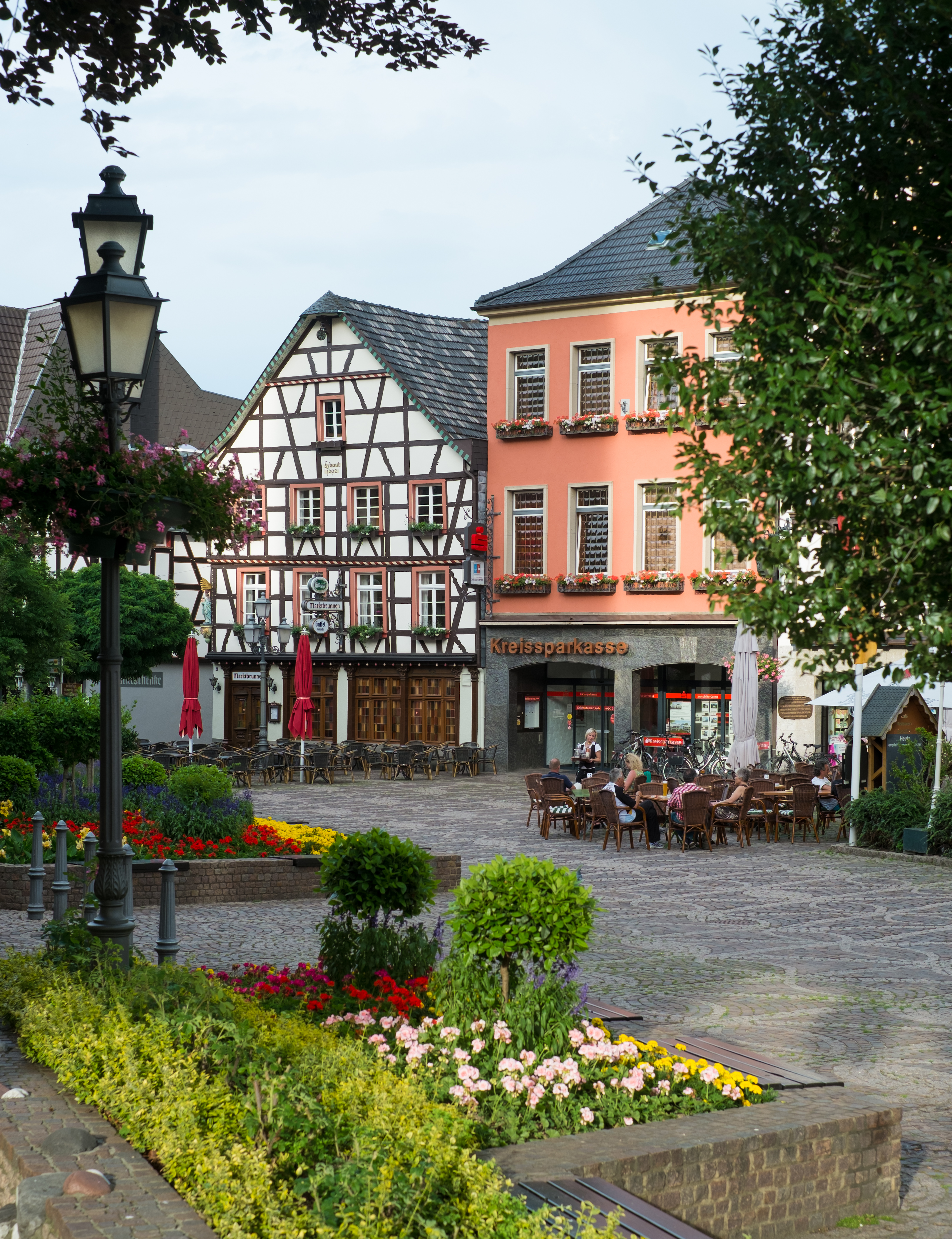 Market place Ahrweiler, Bad Neuenahr-Ahrweiler, Rhineland-Palatinate, Germany